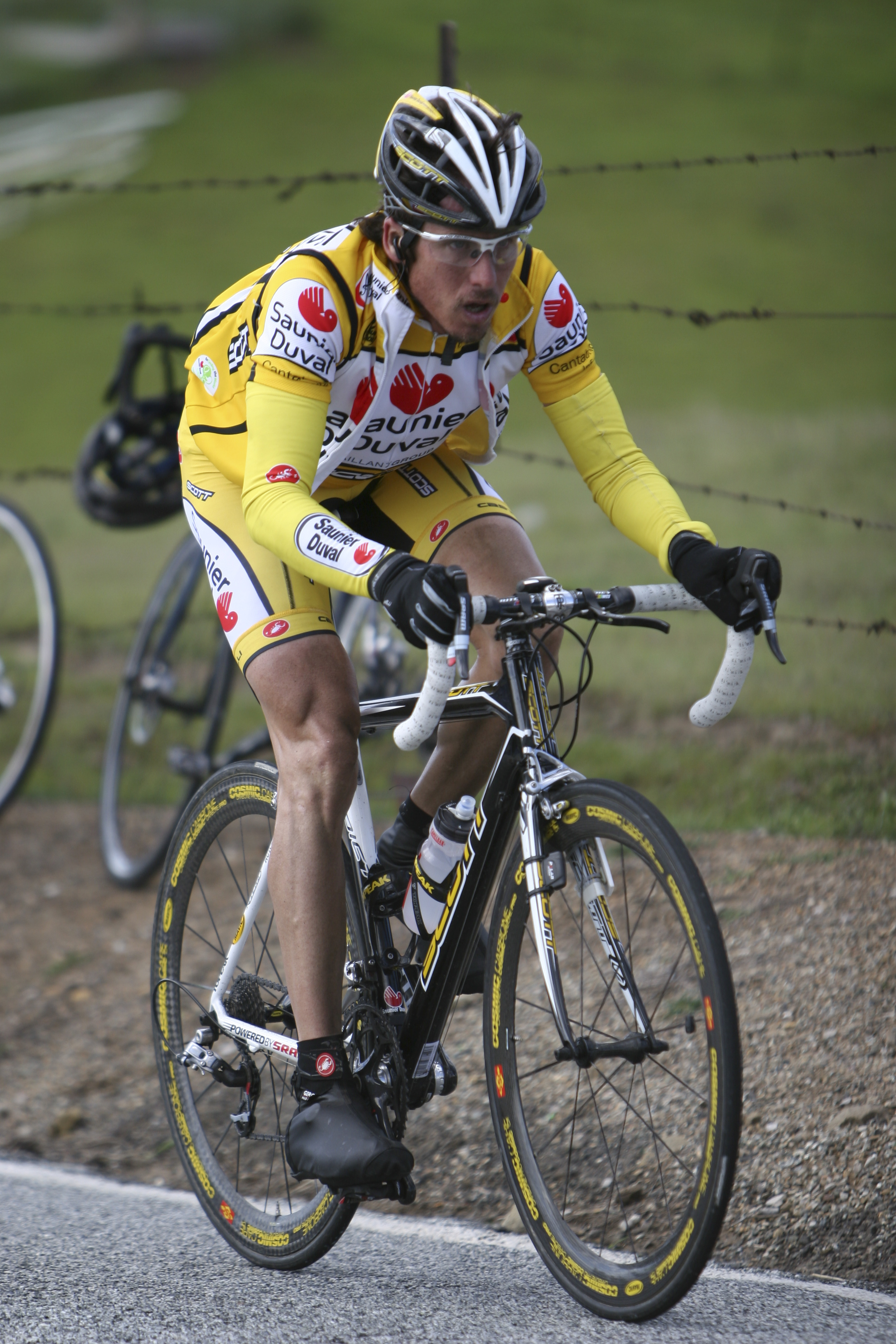 David Cañada Gracia, Tour of California 2008